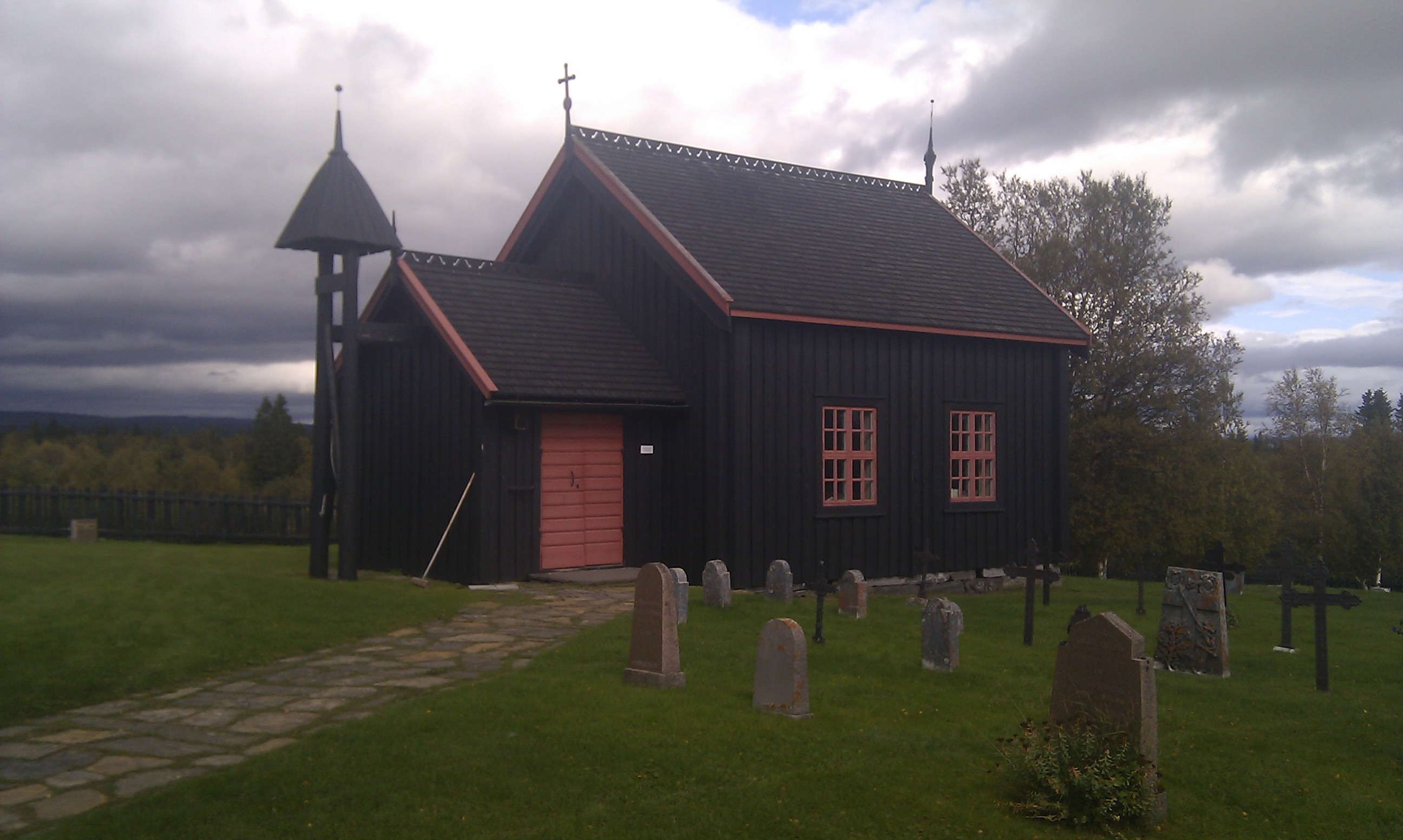 Handöl chapel, Sweden